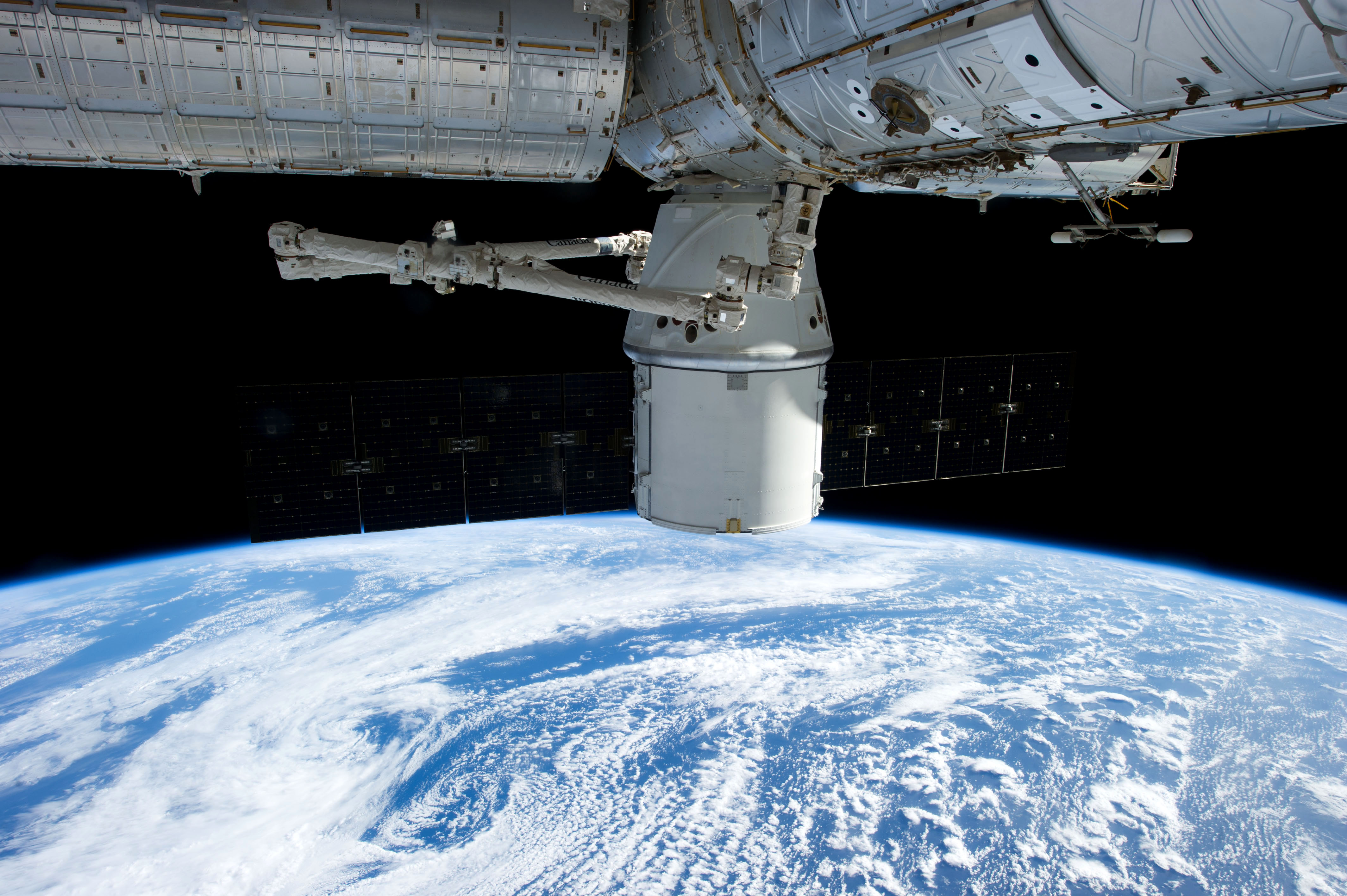 Dragon capsule berthed to the ISS.